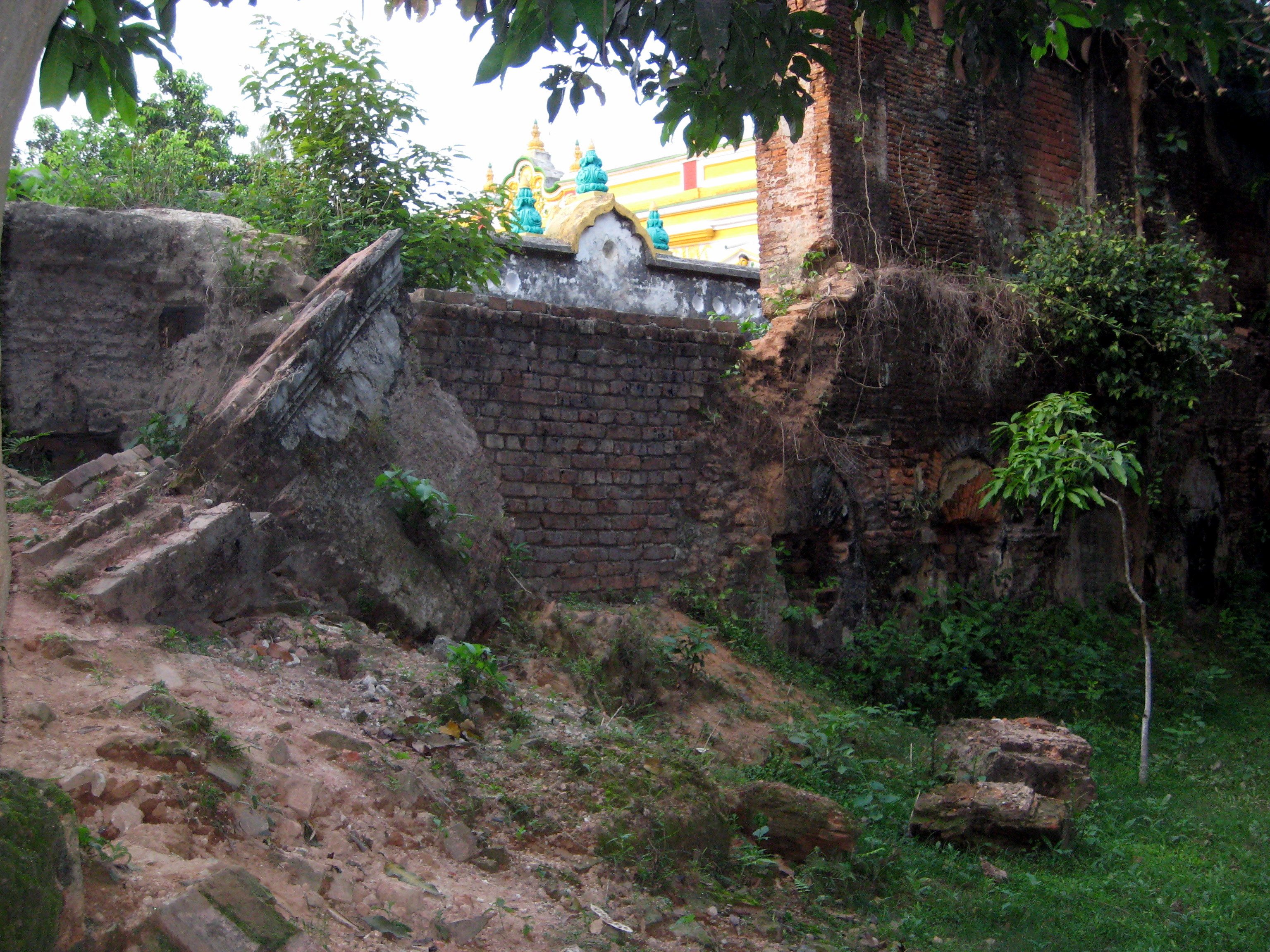 Tales of history says that Raja Dinaj or Dinaraj is the founder of the Dinajpur Rajbari. But others say that after usurping the Ilyas Shahi rule, the famous Raja Ganesh of the early 15th century was the real founder of this house . At the end of the 17th century Srimanta Dutta Chaudhury became the zamindar of Dinajpur and after him, his sister's son Sukhdeva Ghosh inherited the property as Srimanta's son had a premature death.